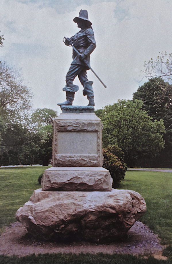 Temporary Plaster Monument